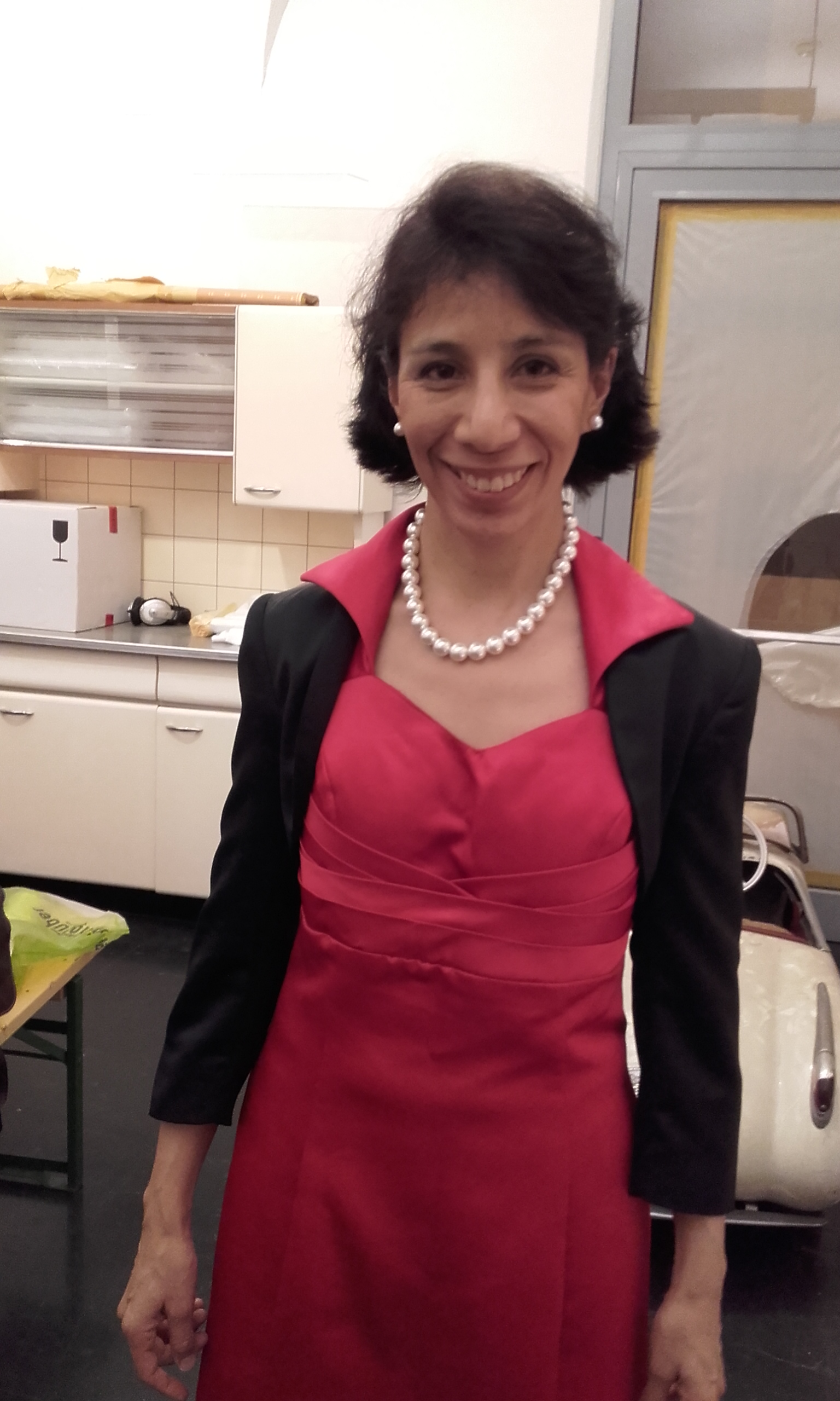 Portrait of Mexican pianist Leticia Gómez-Tagle (2017)